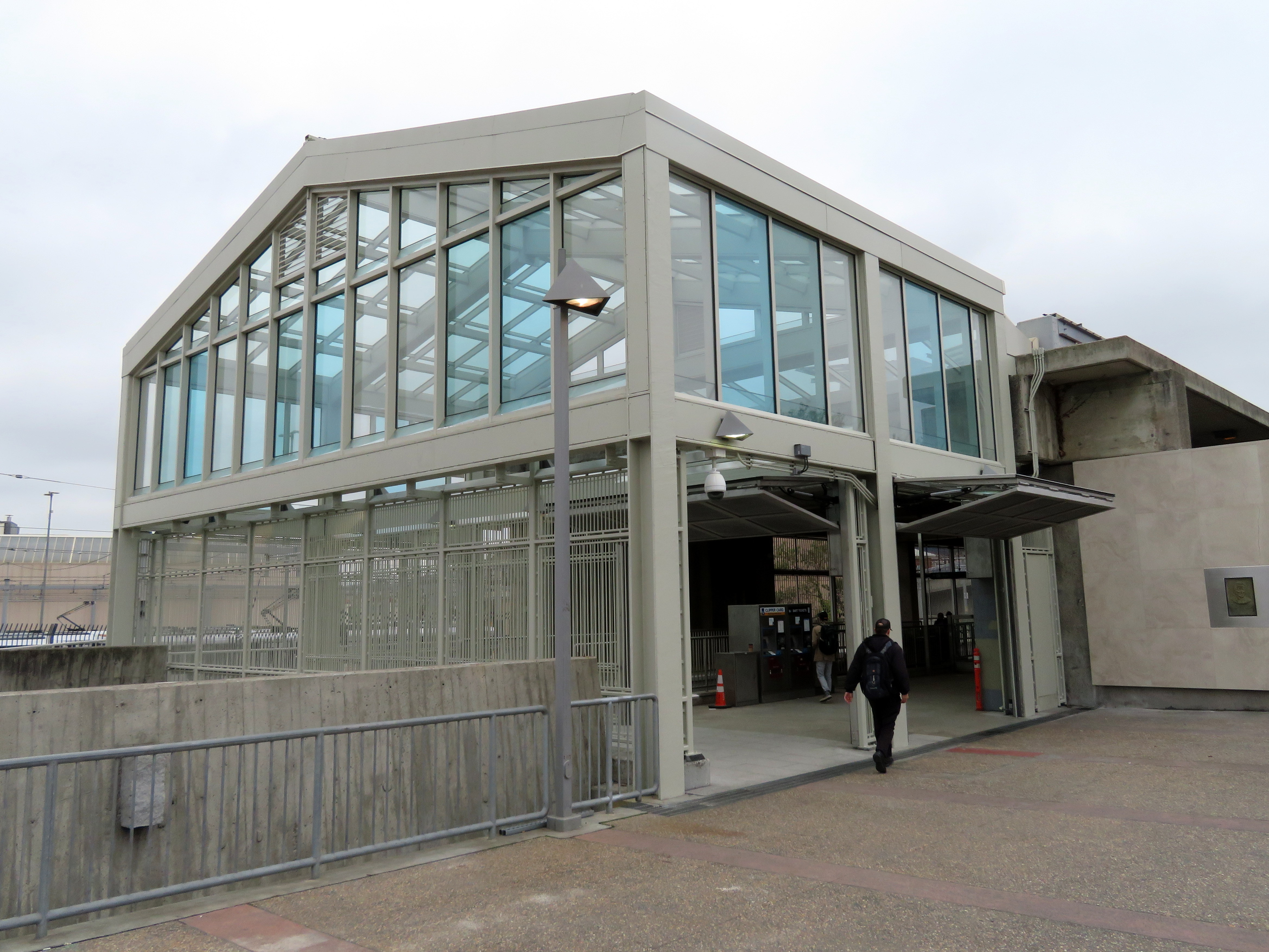 The newly-opened Eastside Connector at Balboa Park station in December 2018